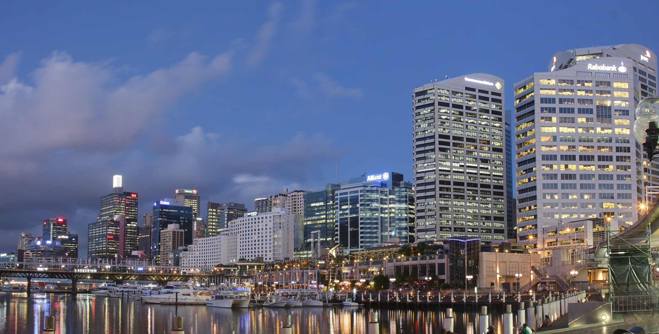 Darling harbour, New South Wales